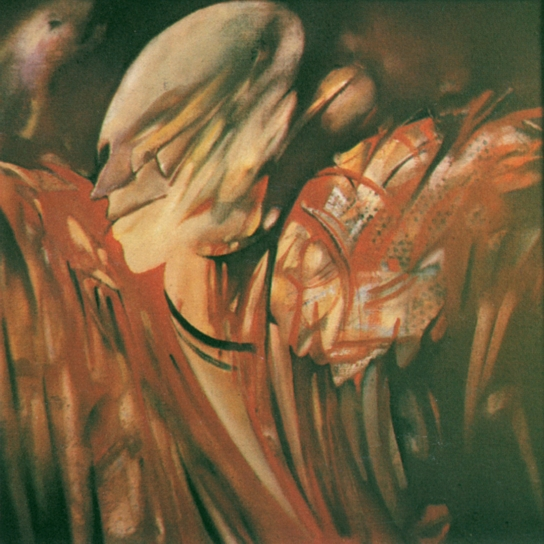 Tuzson-Berczeli Péter: Saman (oil, canvas 60×60 cm, 1989)